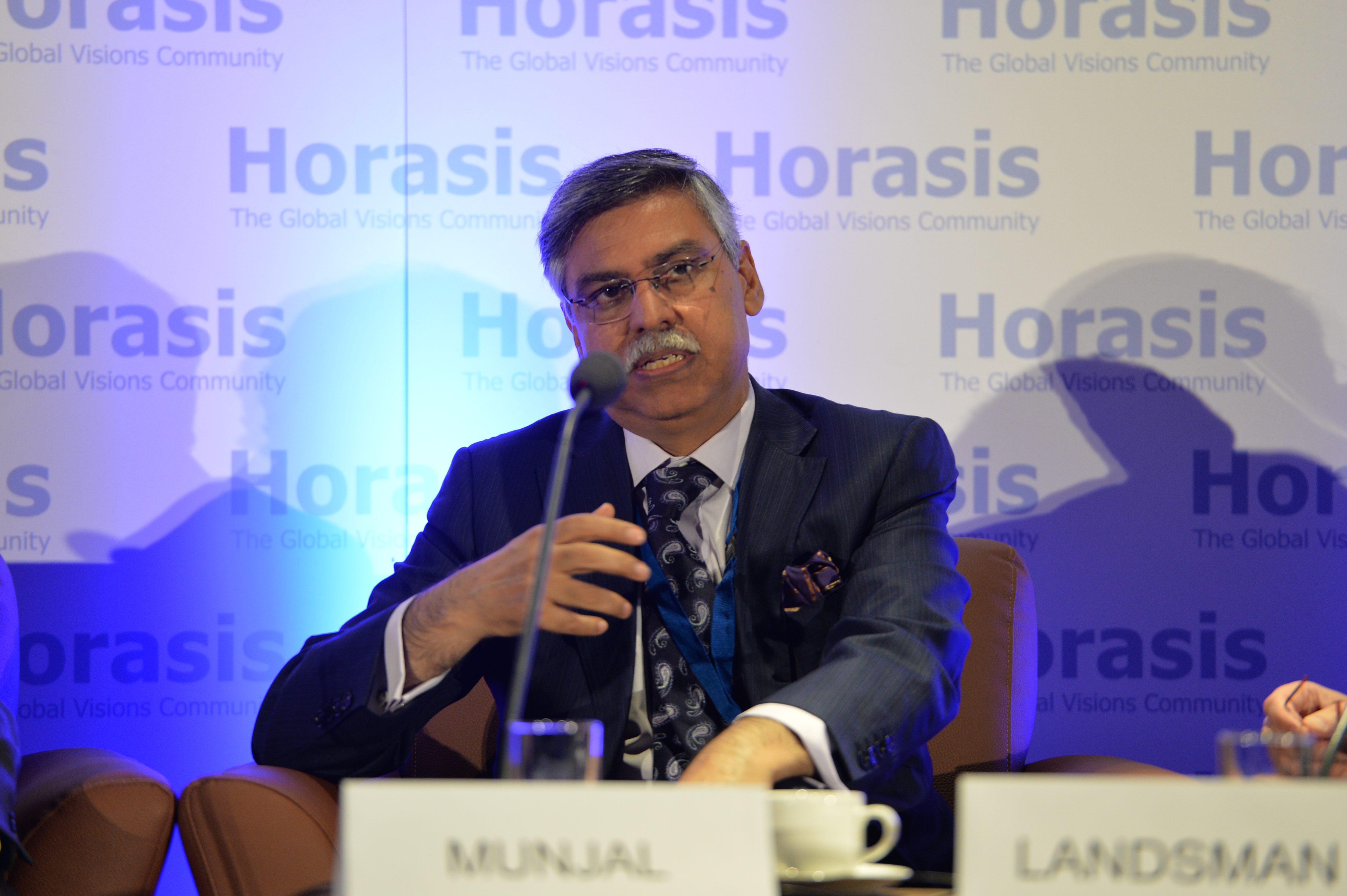 Meeting co-chair Sunil Kant Munjal, Jt Managing Director, Hero MotoCorp, at the 2014 Horasis Global India Business Meeting